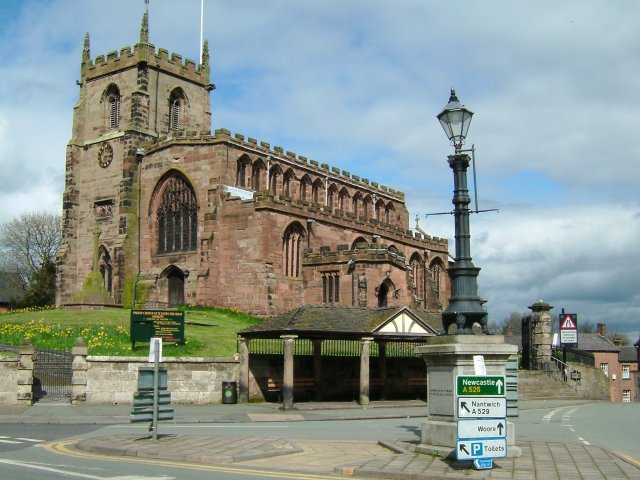 St James the Great Parish church, Audlem, Cheshire, seen from the southwest. The lamp-post on the right is a monument to Dr Richard Baker Bellyse, a 19th-century doctor of medicine who practised in Audlem. Between the Bellyse lamp-standard and the church is the open-sided 18th-century Market House.